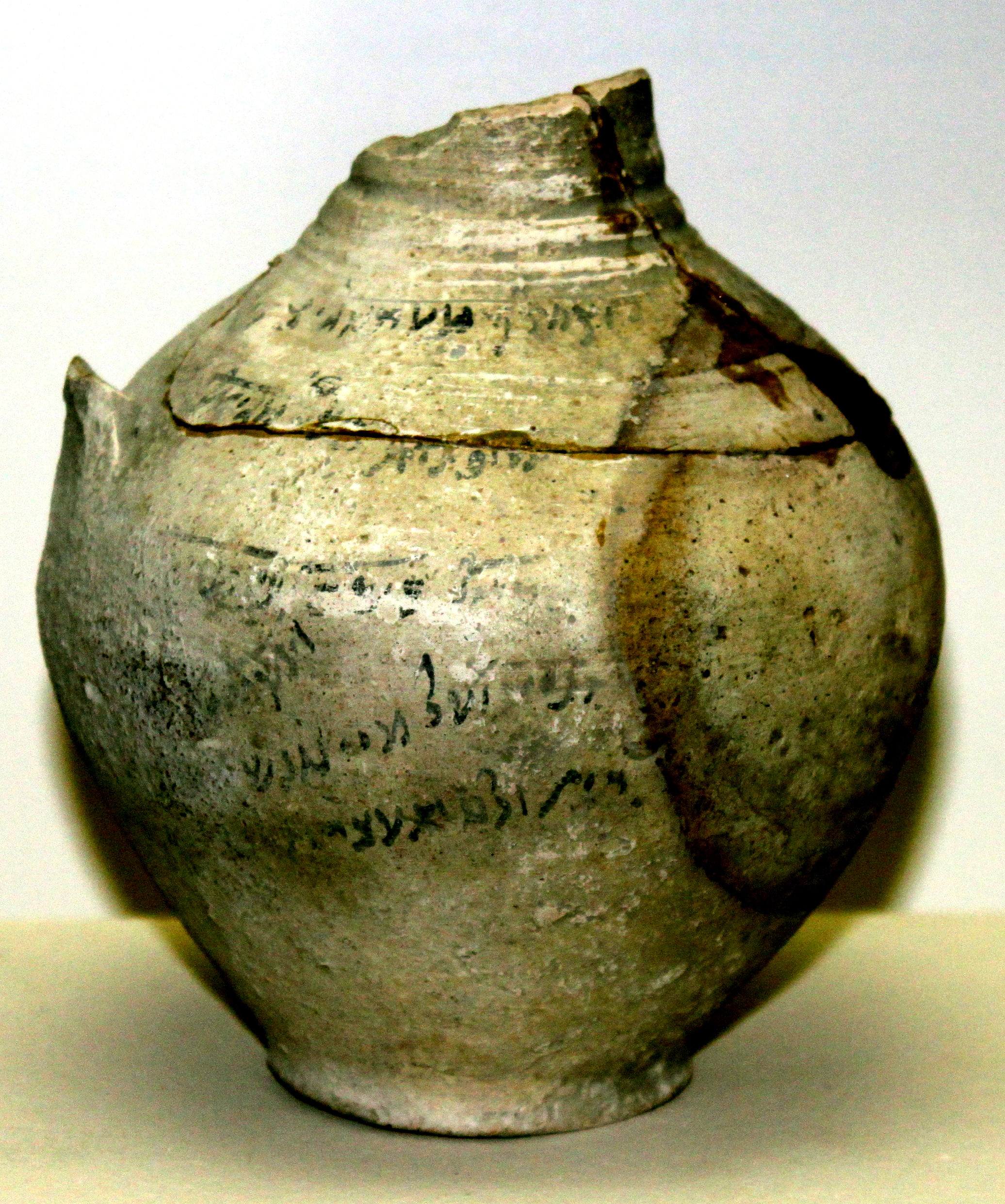 Pottery with Aramaic writing, from Kharabagilan, Nakhchivan, Azerbaijan.